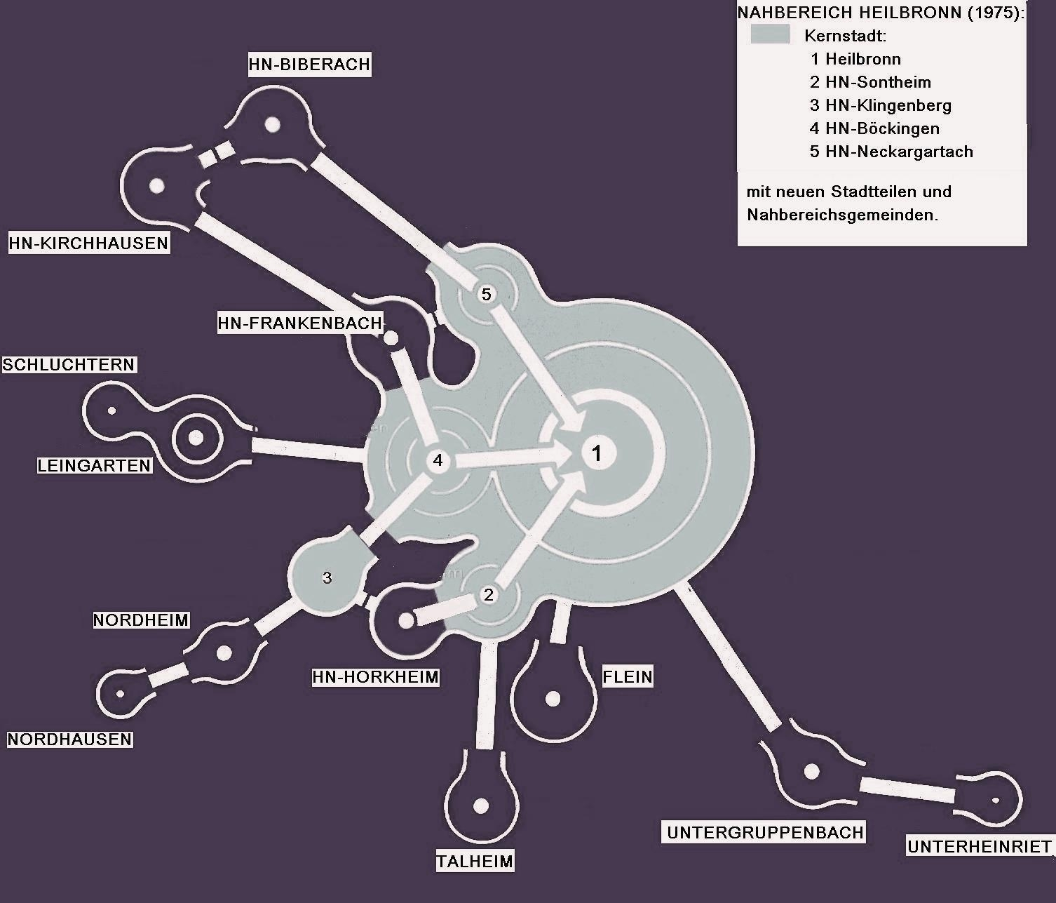 Heilbronn+Nahbereich+1975.JPG